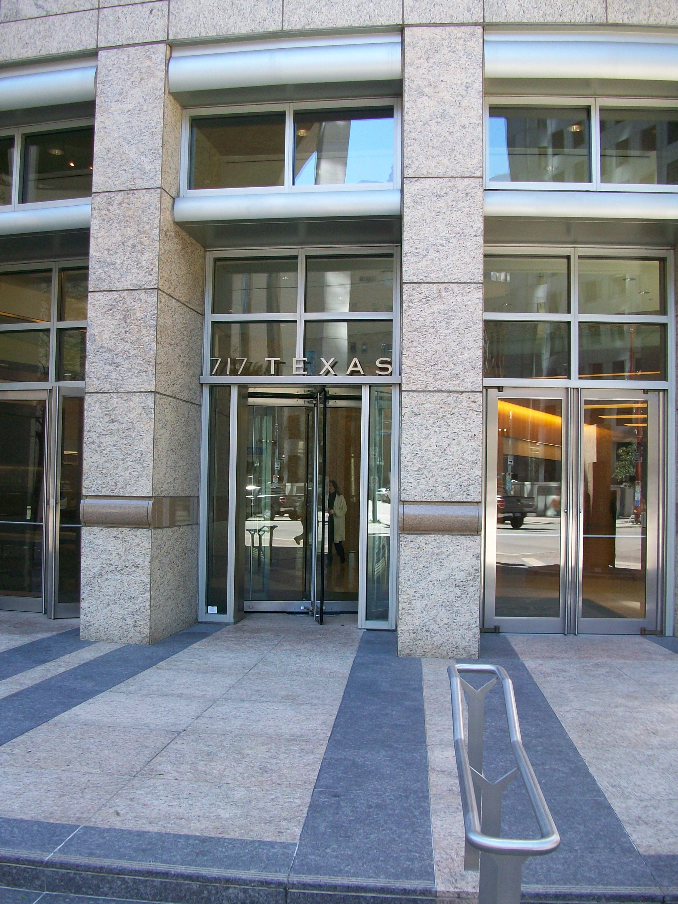 Main entrance to Calpine building at 717 Texas St.